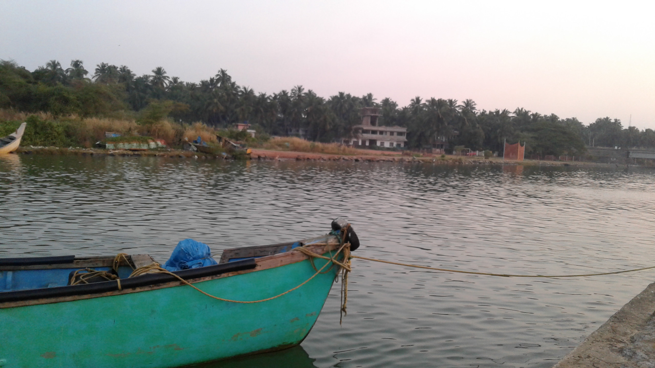 Thalangara Beach has it allː A spectacular estuary, railway bridge, fishing wharf, ancient Malik Deenar Mosque and a cute riverside walk located inside a village inhabited only by millionaires. Located two kilometers south of the railway station at Kasaragod city in Kerala state, India.